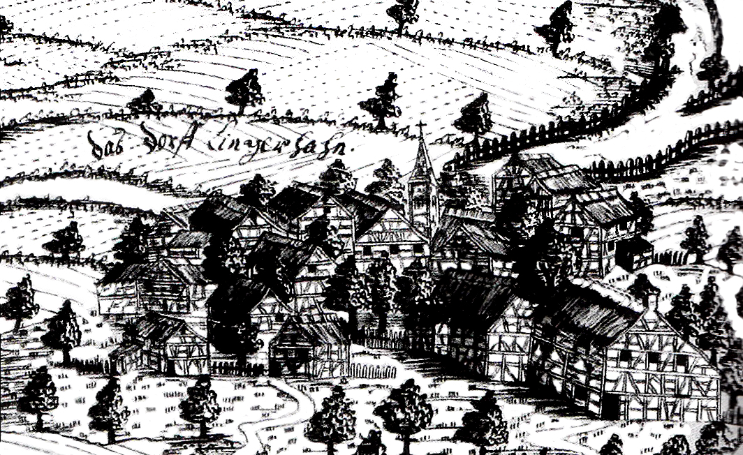 Village of Lingerhahn Anno 1740, from West